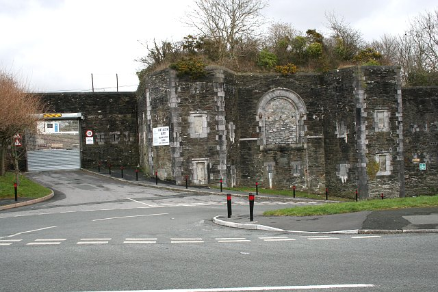 Austin Fort, Eggbuckland. This is just a part of this large Palmerston Fort. It is one of several such fortifications built around Plymouth in the 19th Century. It is now used as a local council depot.